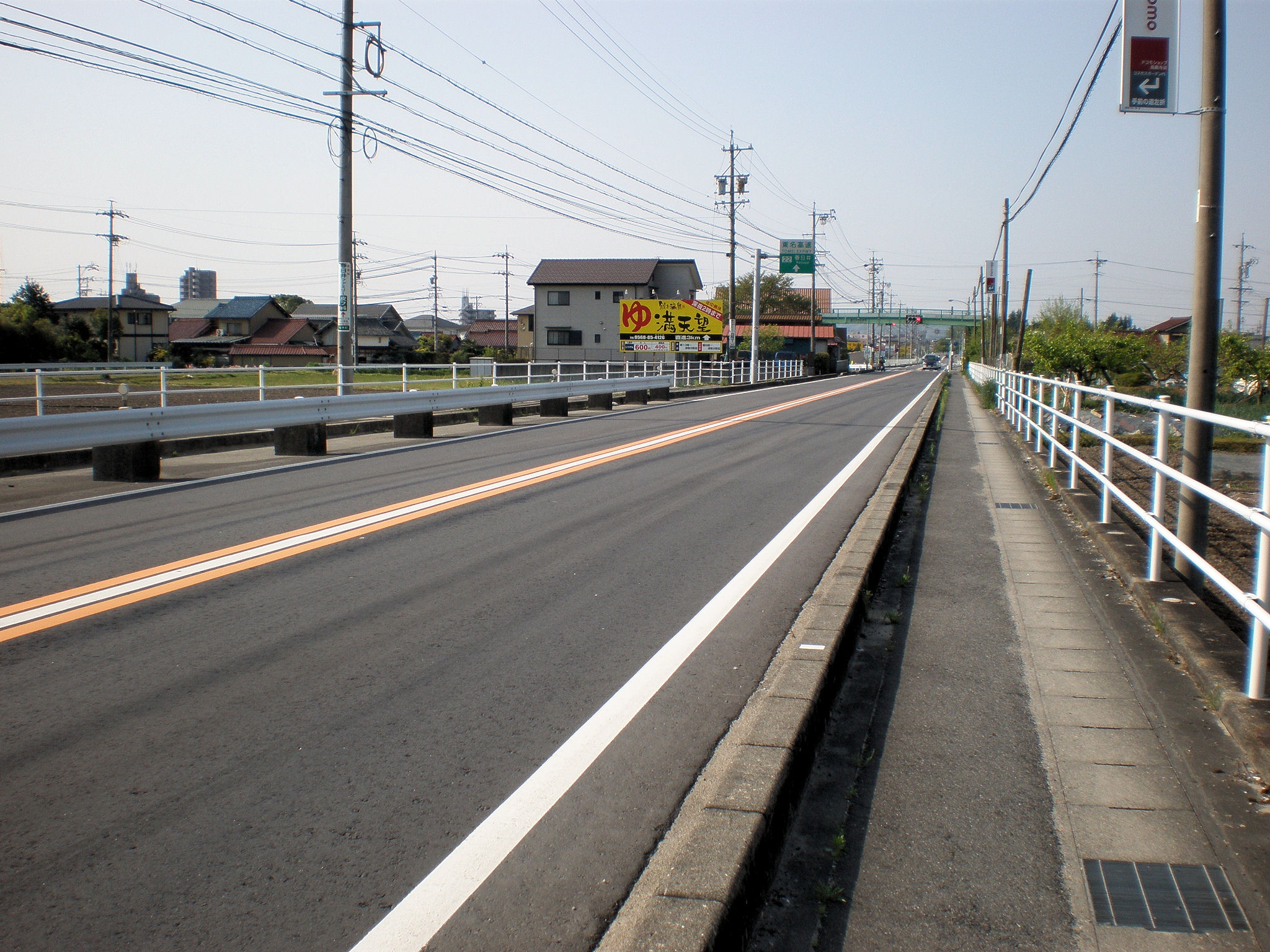 The Aichi Prefectural Road Route 508 in Matsumotocho, Kasugai City